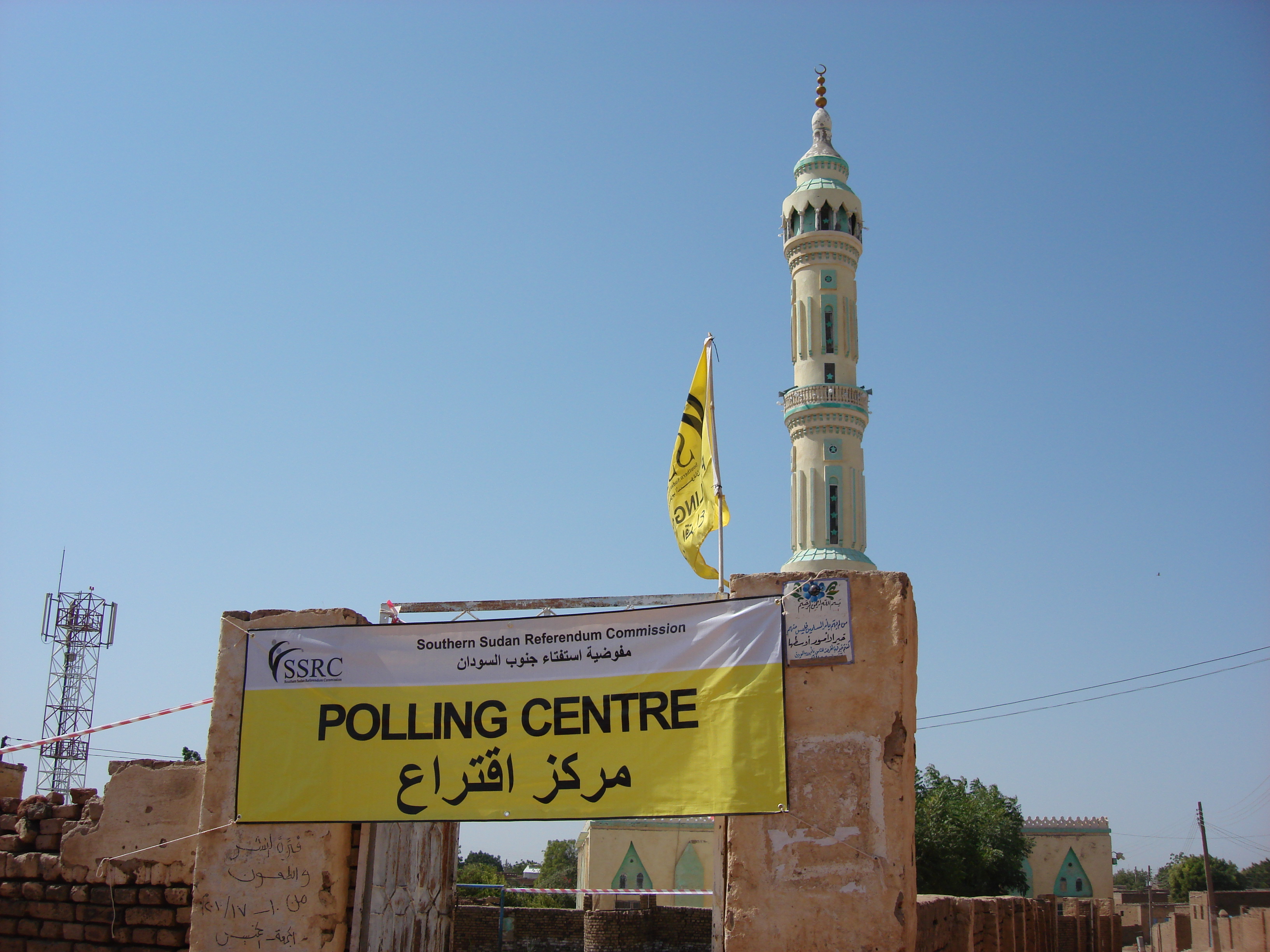 A referendum polling center in Al Gezira state in northern Sudan. Mirella McCracken/USAID View more photos on our website